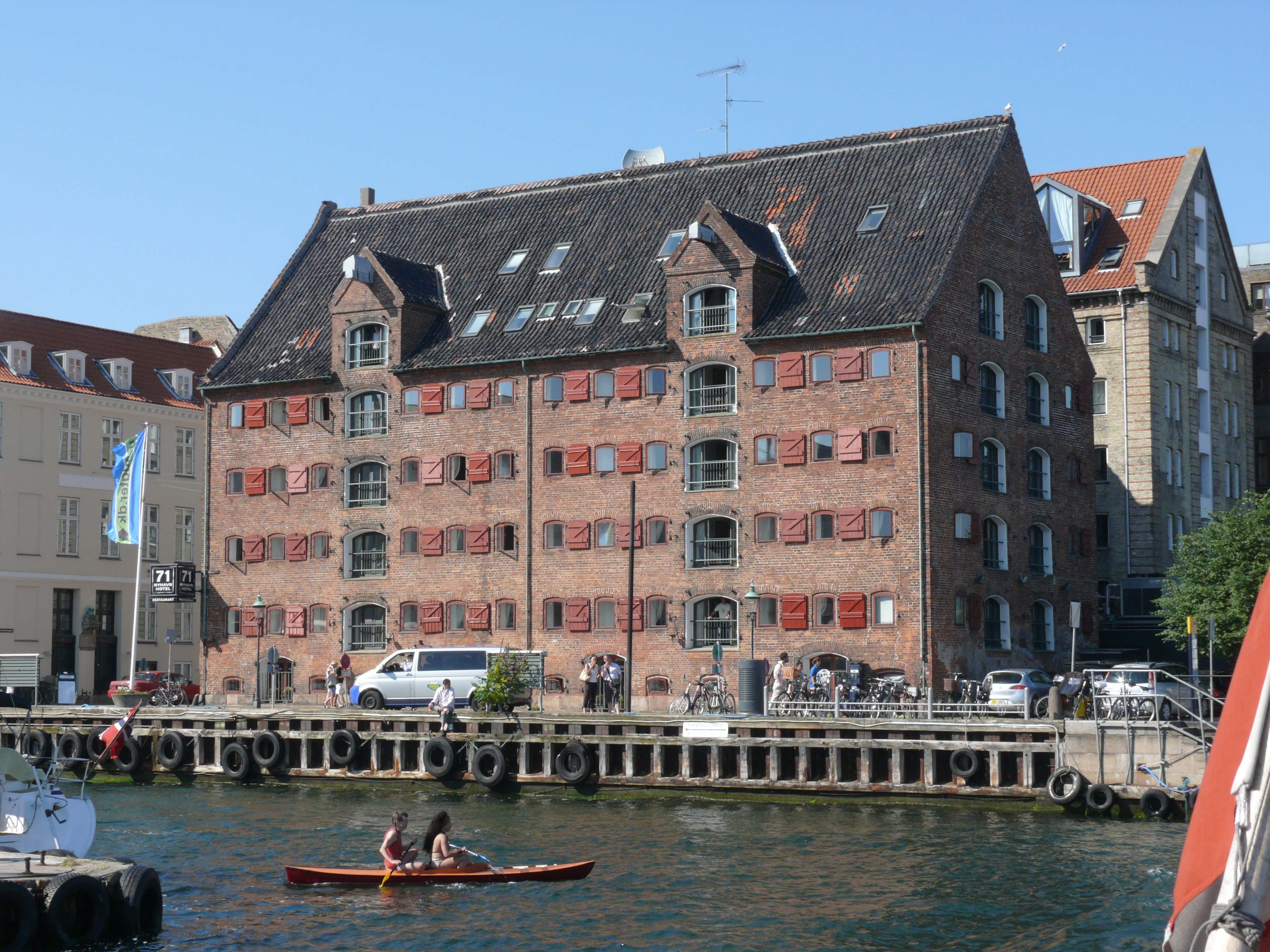 71 Nyhavn, an old warehouse converted into a hotel in Copenhagen, Denmark